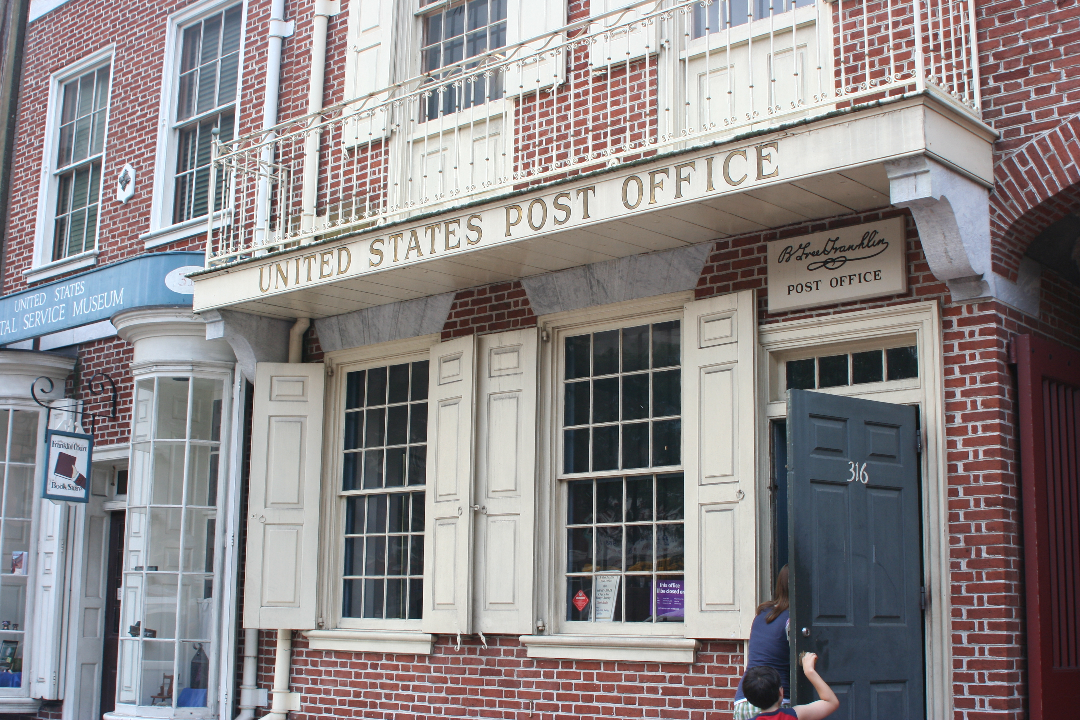 Exterior of the B. Free Franklin post office in Philadelphia, PA